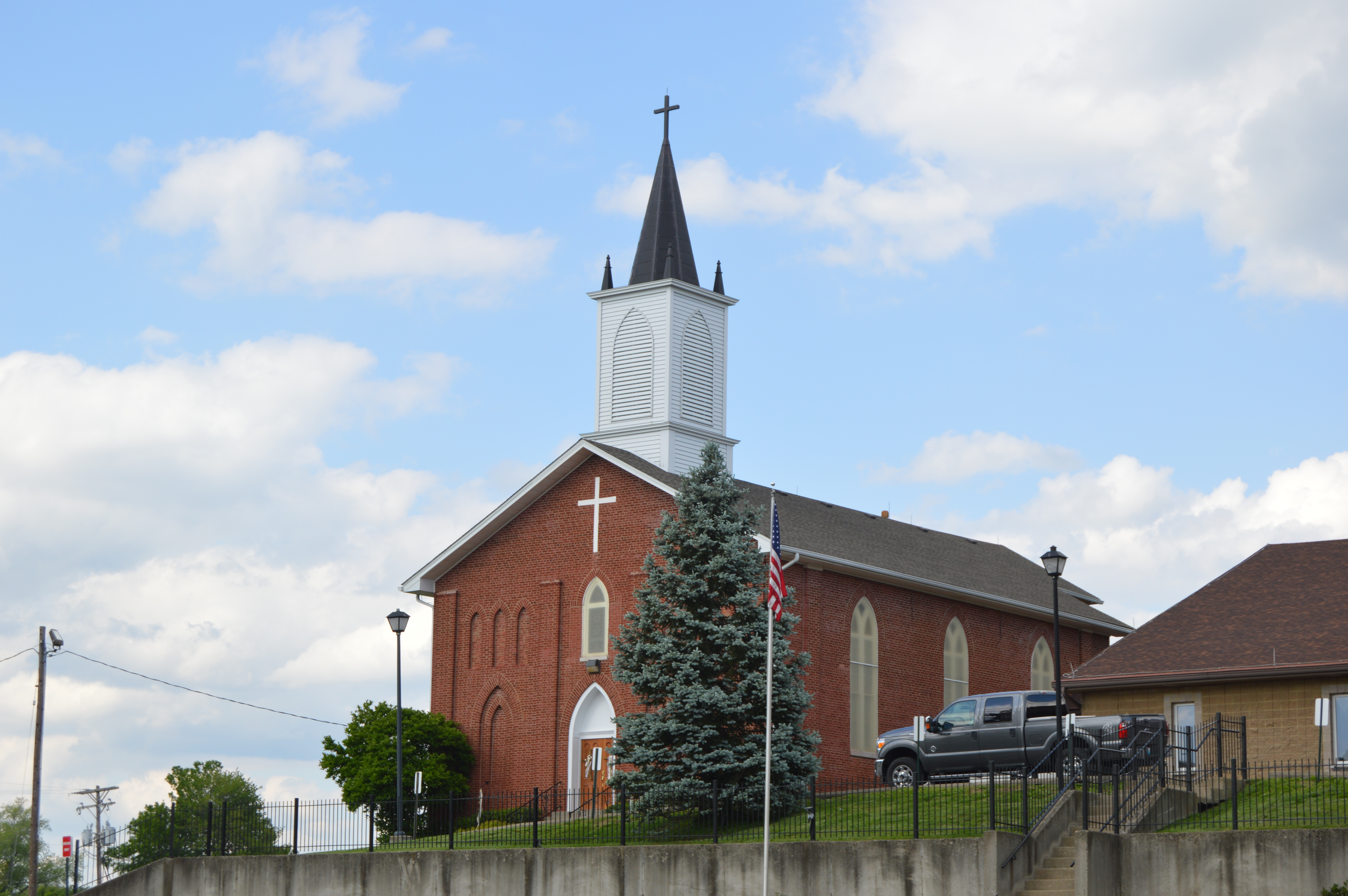 Front and southern side of All Saints Catholic Church, located on the eastern side of Main Cross Street north of Main Street in Taylorsville, Kentucky, United States. Built in 1830, it is listed on the National Register of Historic Places.